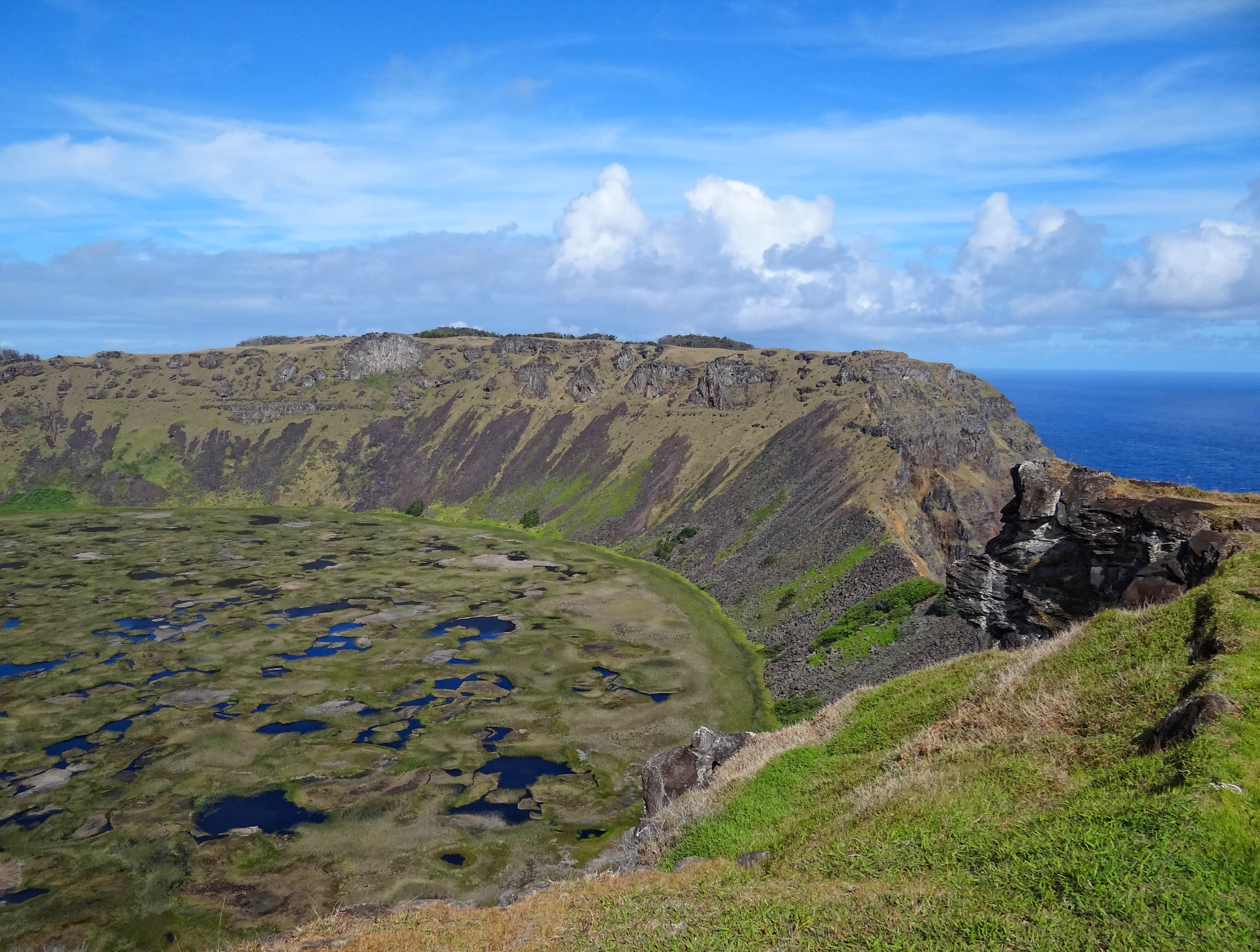 A view from the west side of the crater at Rano Kau, looking towards the southern side of the crater, where much of the crater wall has collapsed into the sea. On the right side of this photo is the Orongo Ceremonial Village.